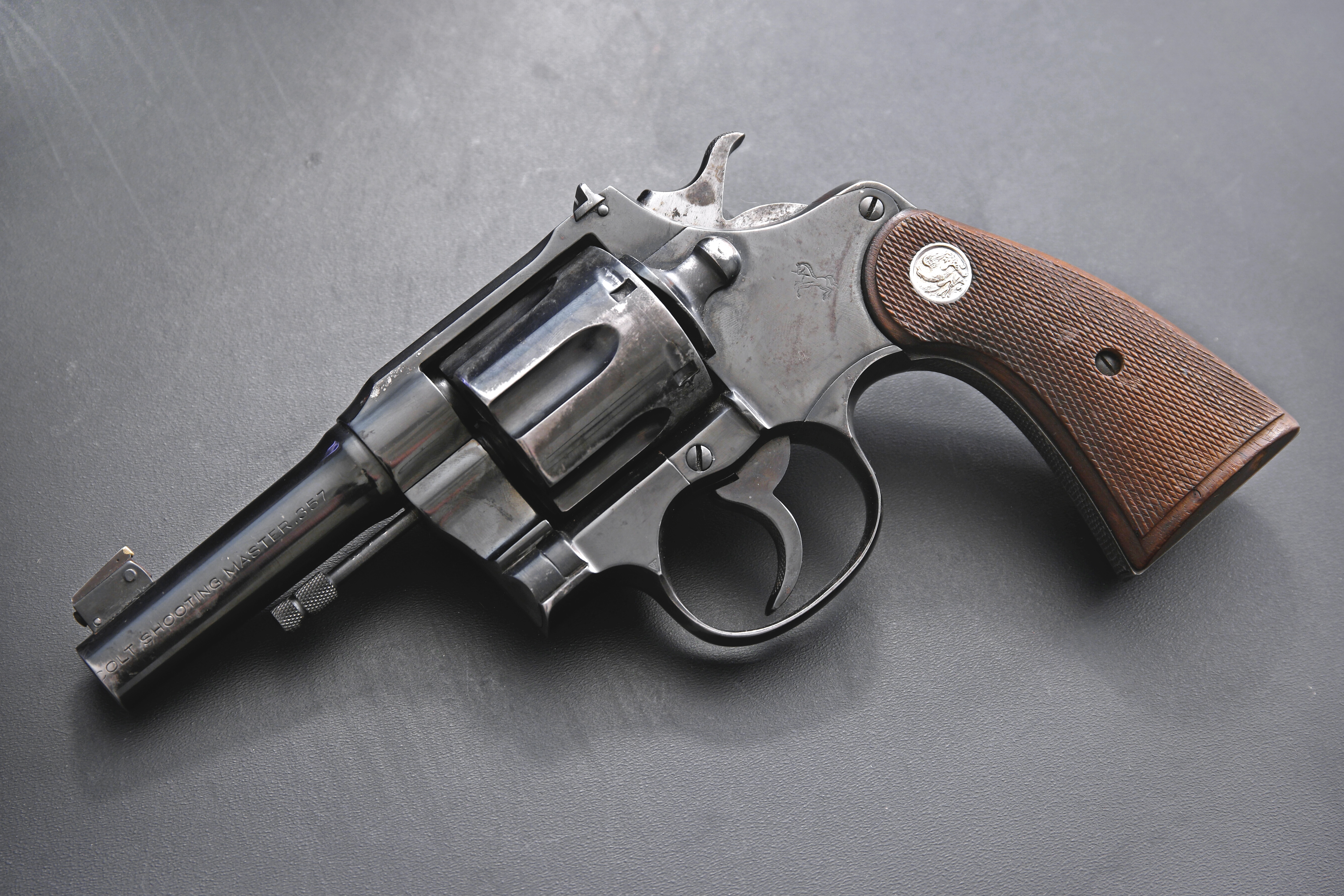 Shortened barrel on a rare Shooting Master 357